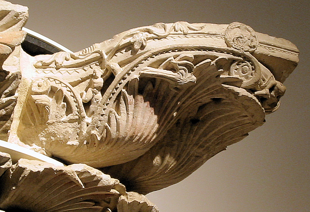 Detail of canopy of Stupa C1, Hadda. Personal photograph, 2006. Musee Guimet.